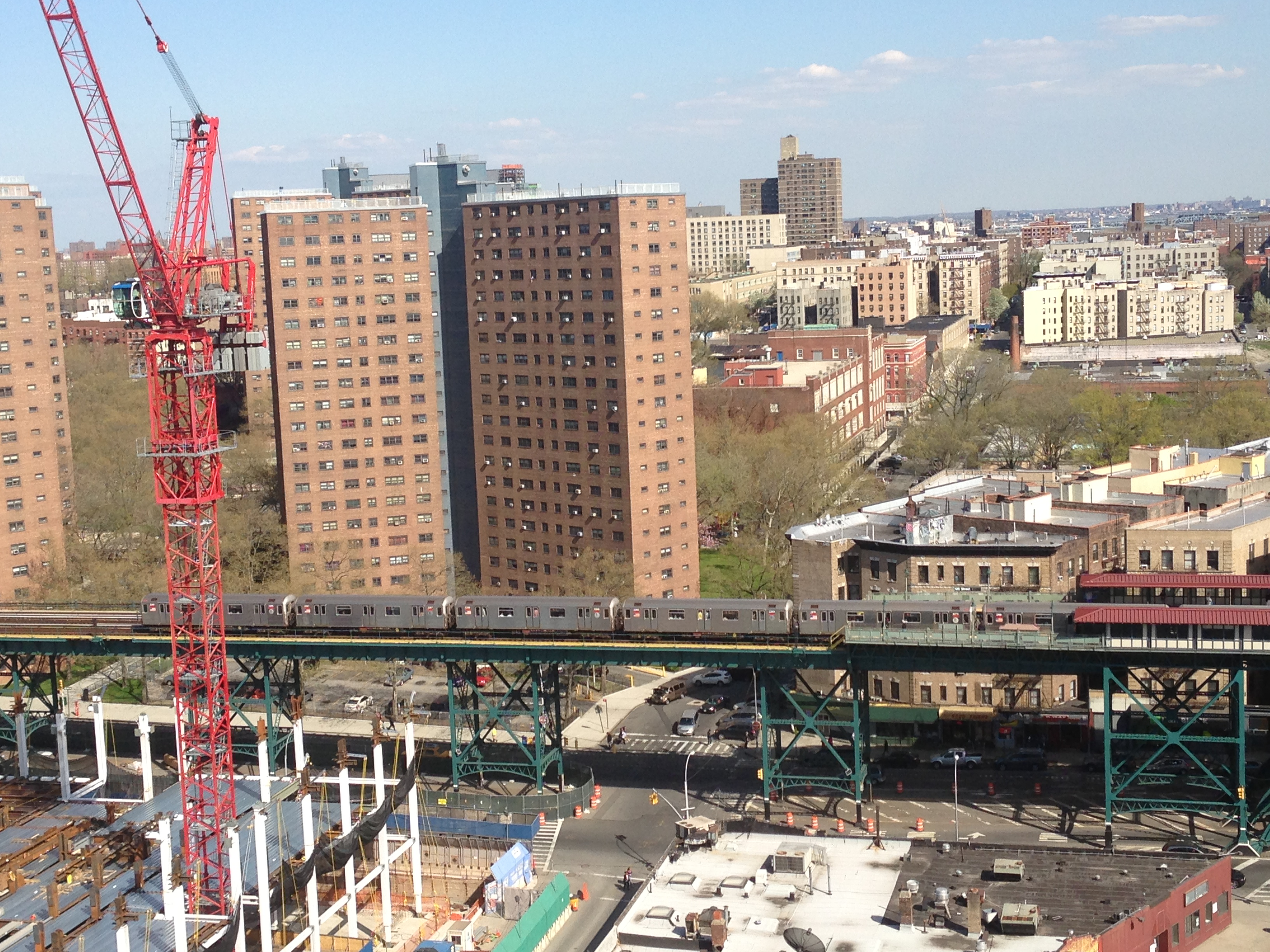 The downtown 1 train arriving at the 125th street station. On the left is the construction site of the new Columbia university campus.